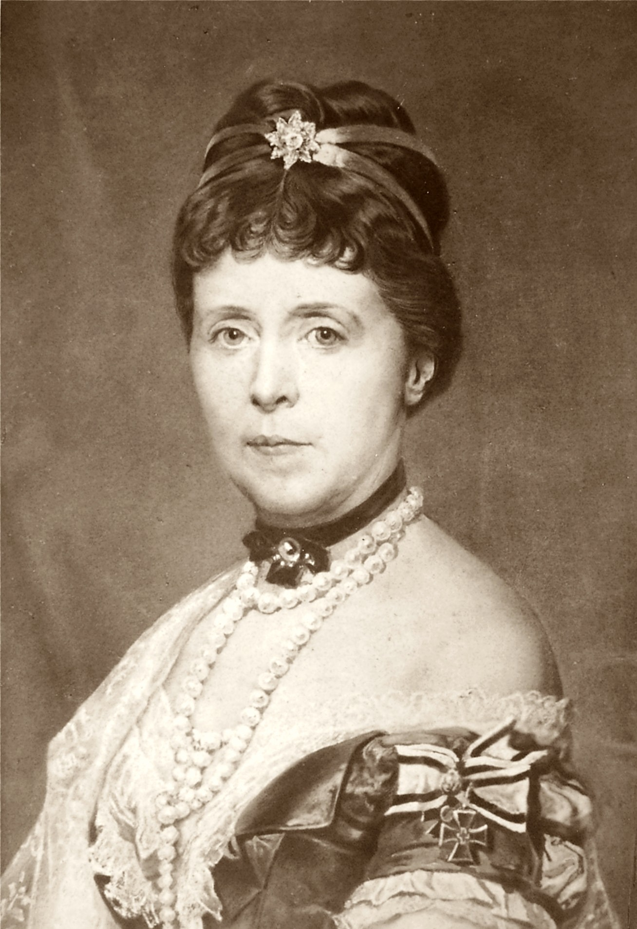 German Empress Augusta Marie of Saxe-Weimar-Eisenach